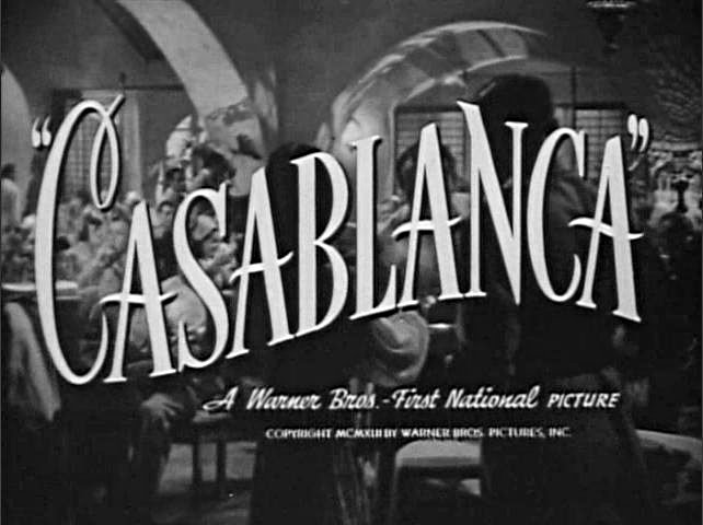 Screenshot of the title screen of the trailer.